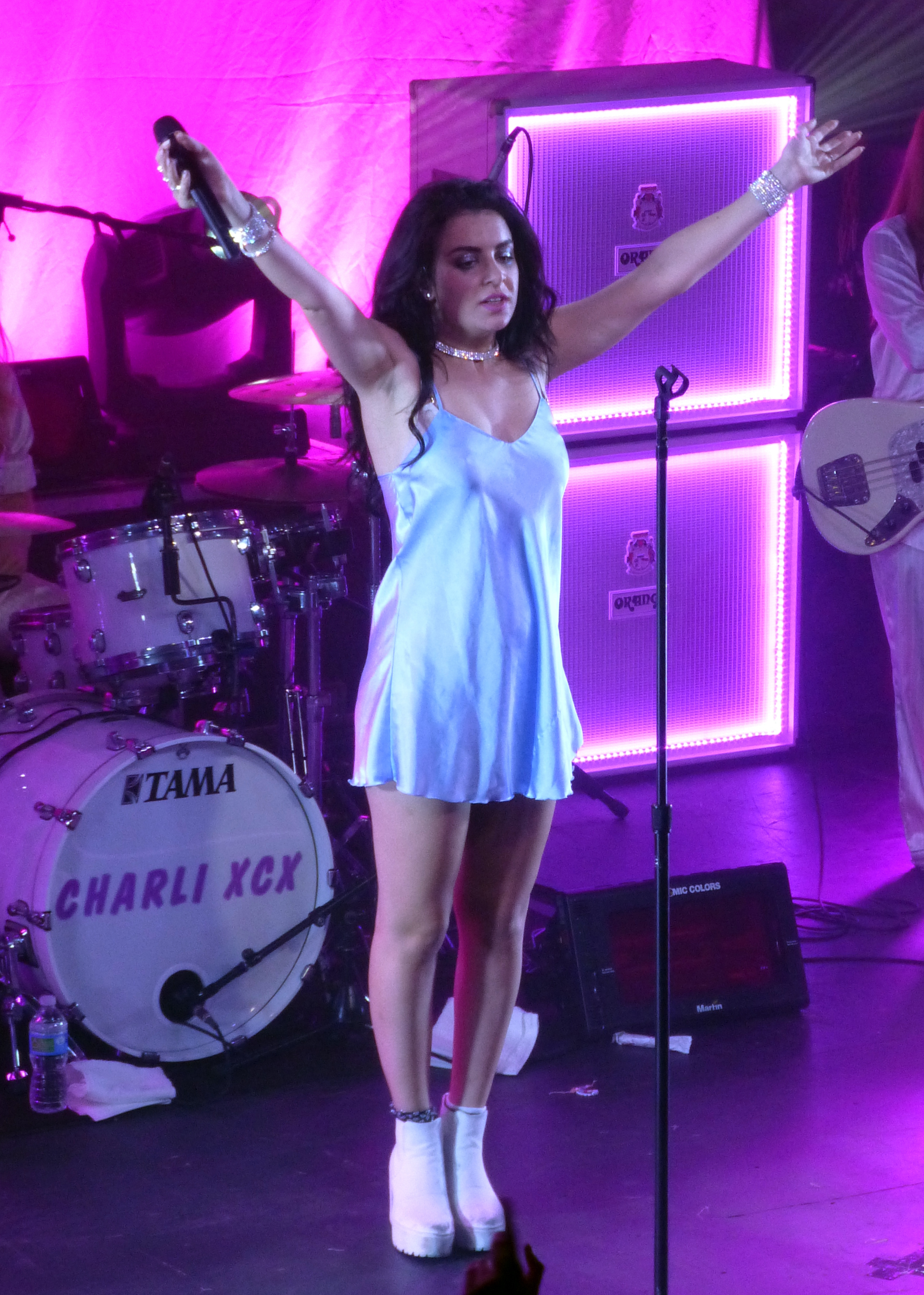 Charli XCX performing in Detroit, 11 October 2014